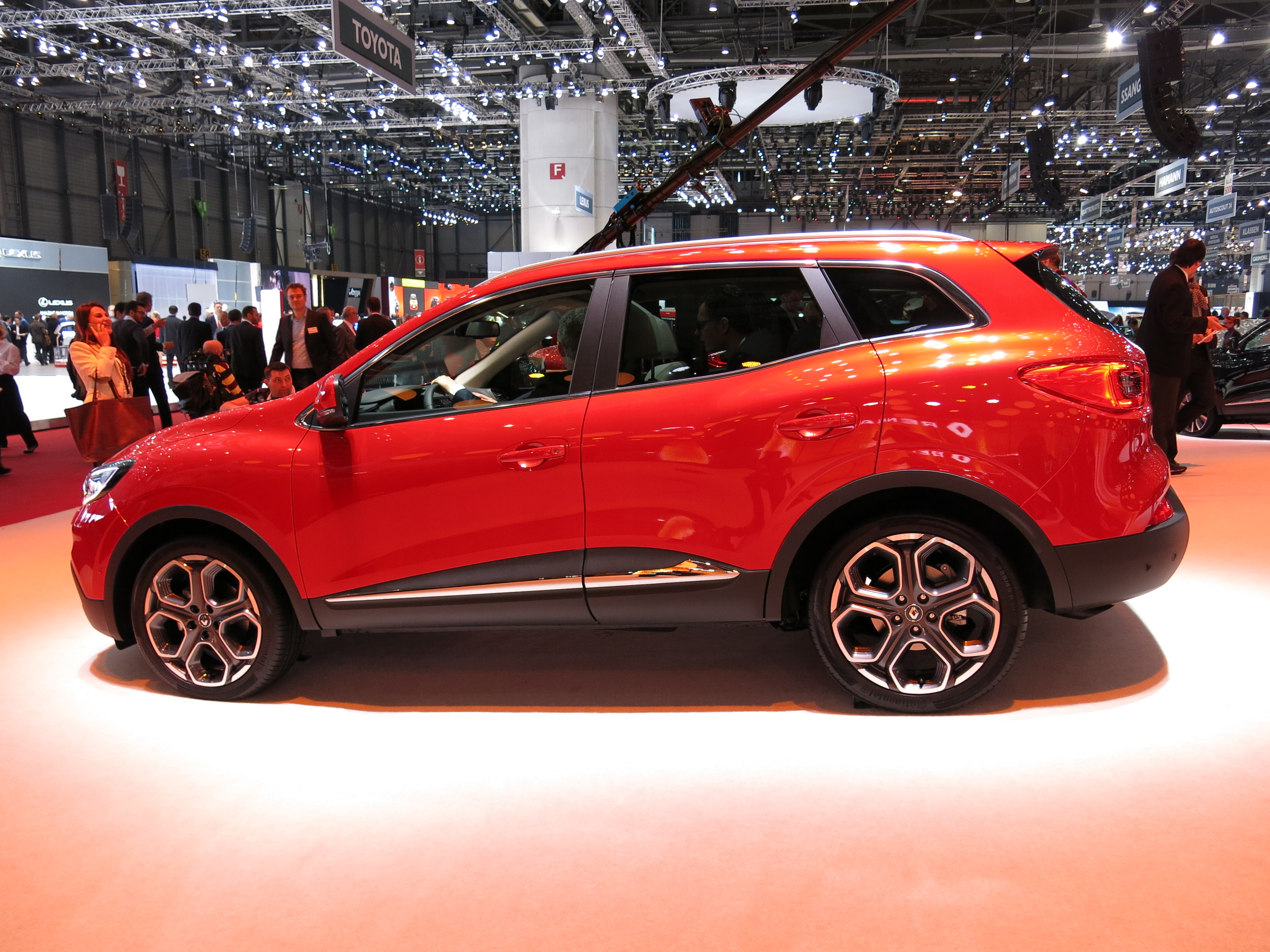 Geneva Motor Show 2015 (photo taken on the first press day)